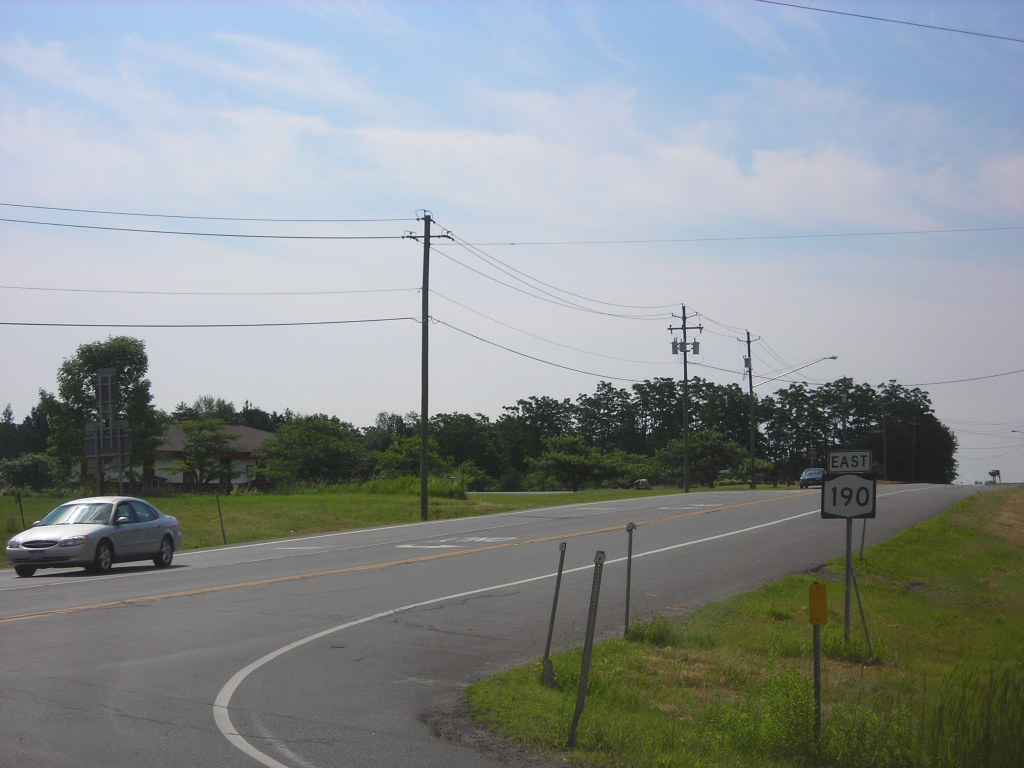 New York State Route 190 heading eastbound through Plattsburgh.